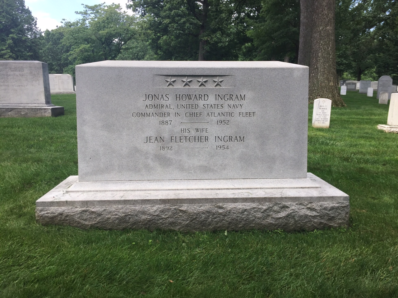 Grave of Jonas H. Ingram at Arlington National Cemetery